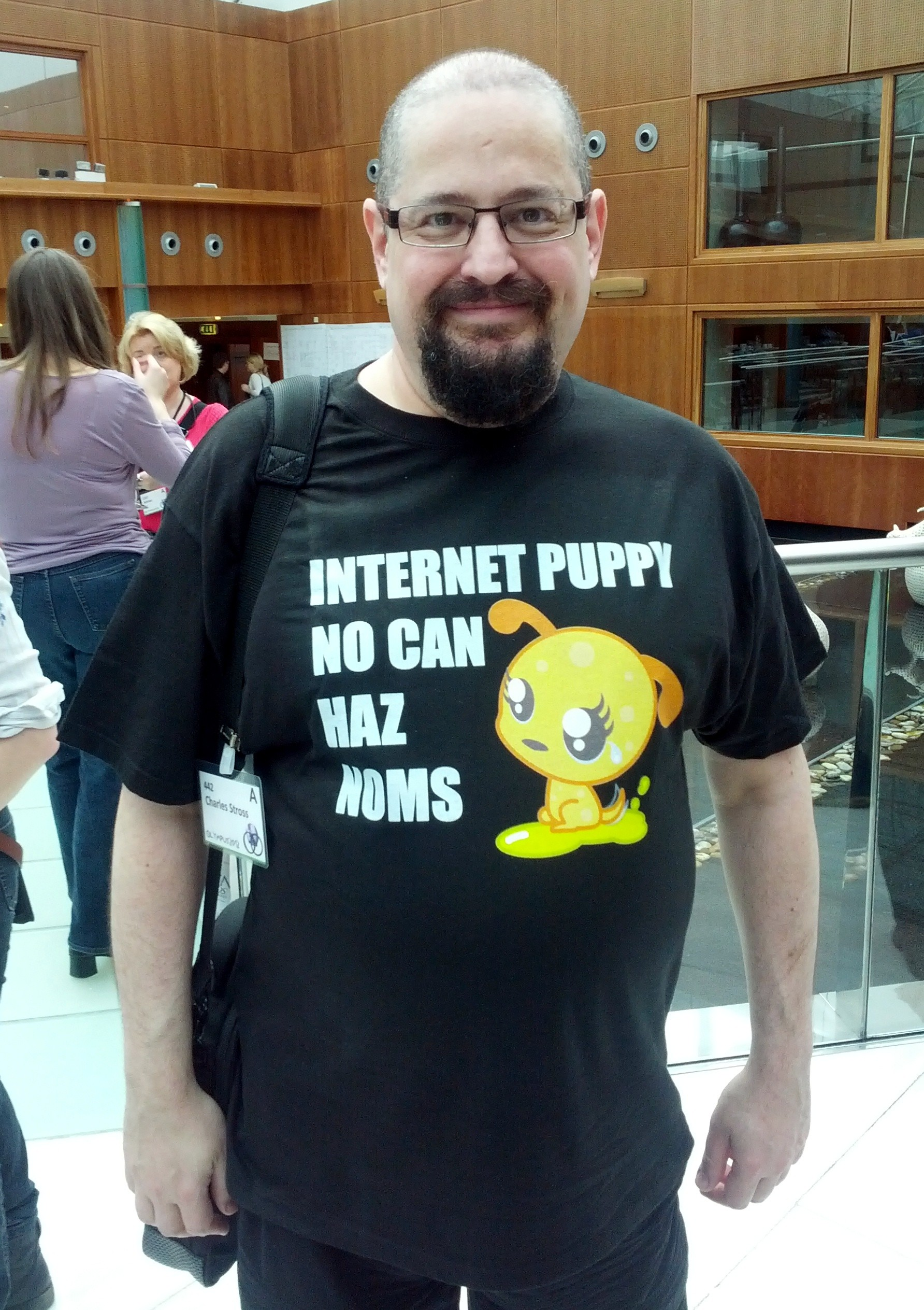 SF author Charles Stross in an "Internet Puppy" t-shirt at EasterCon 2012